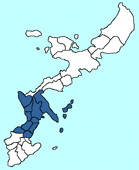 Middle Region of Okinawa Island